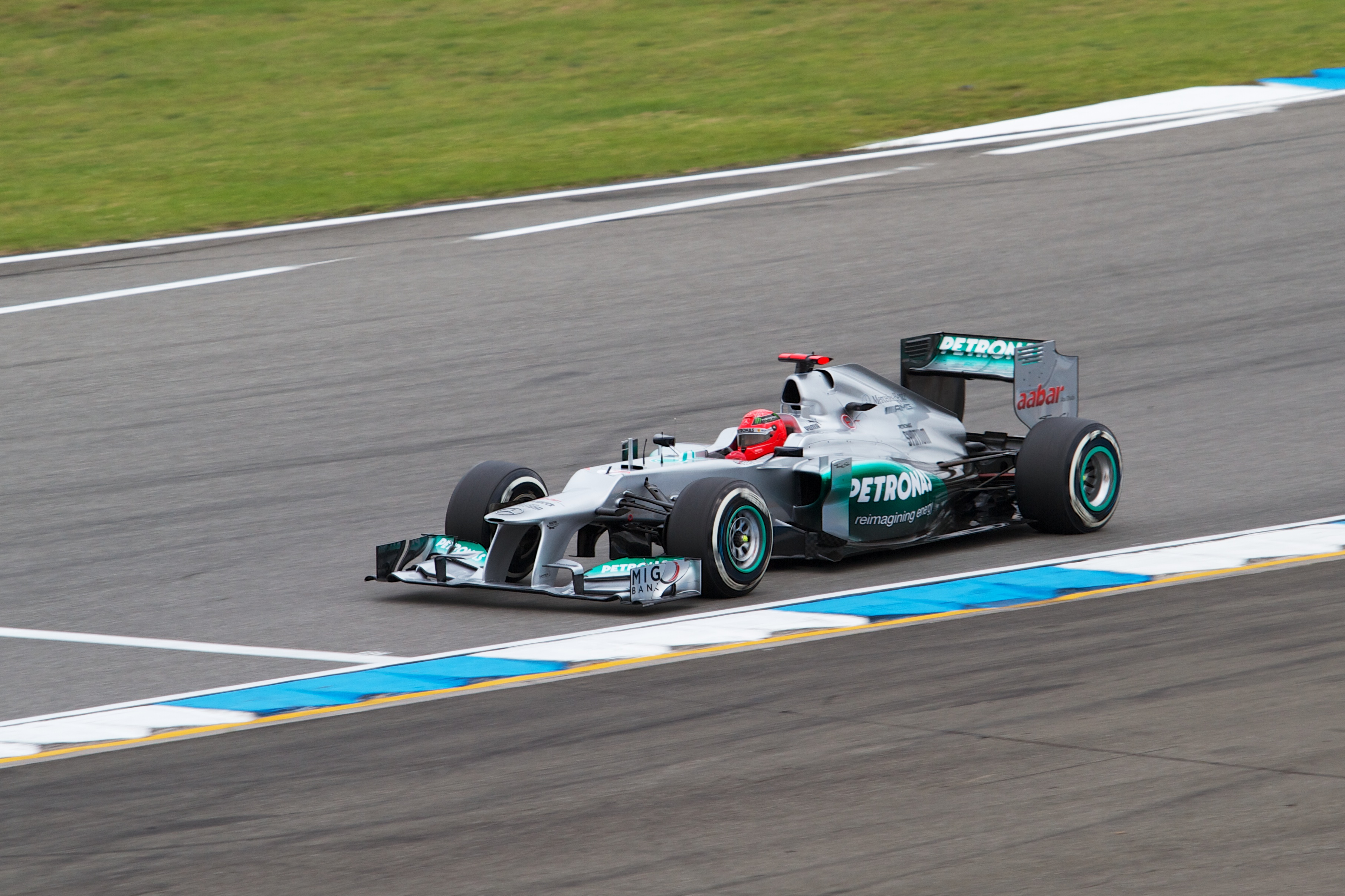 Michael Schumacher at the 2012 German Grand Prix